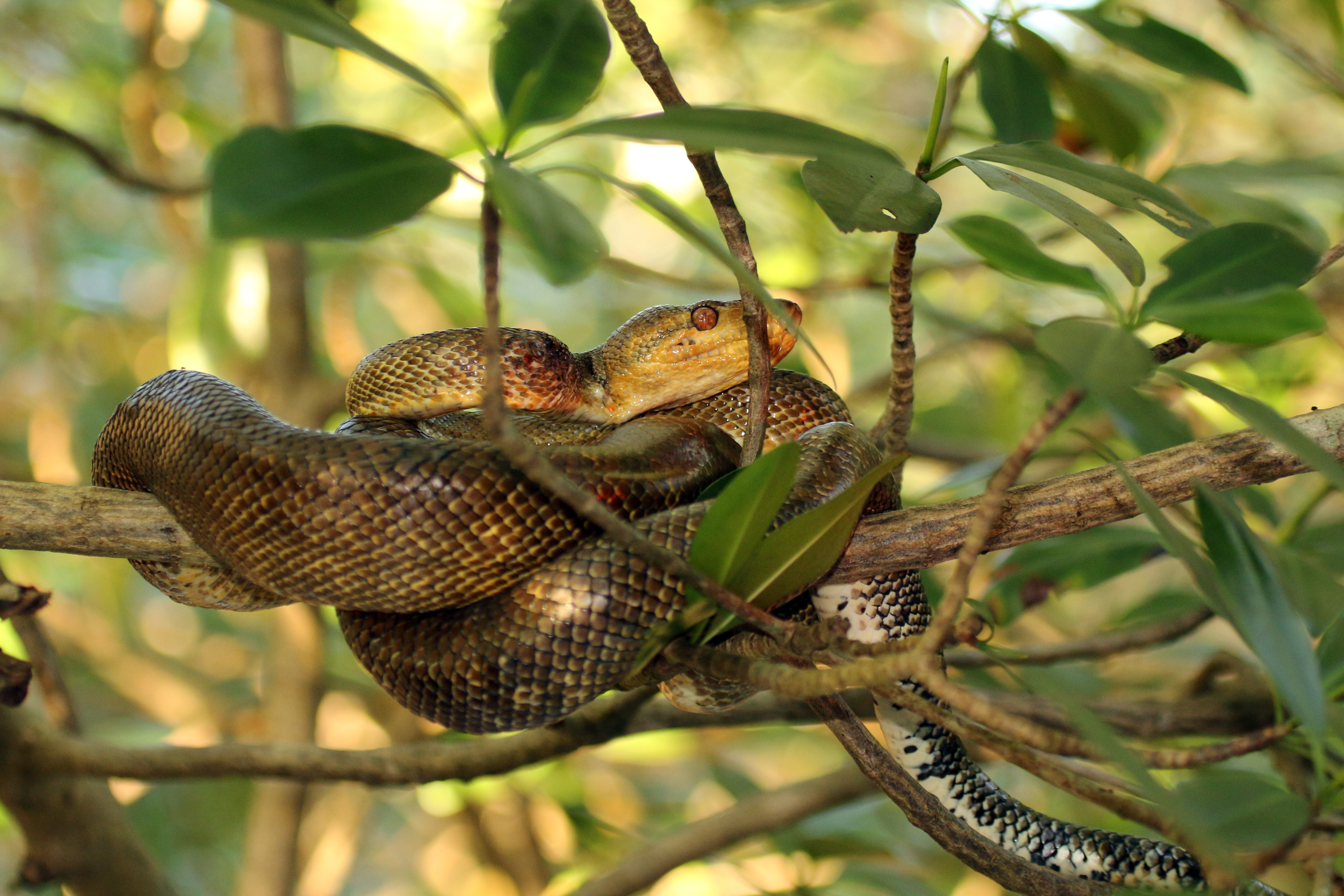 Trinidad tree boa (Corallus ruschenbergerii), Trinidad